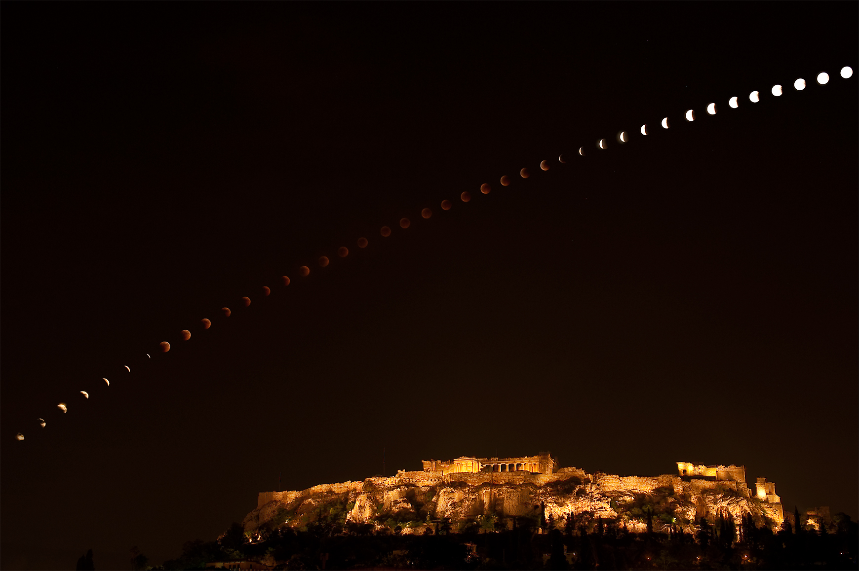 The total phase of the June 15 lunar eclipse lasted an impressive 100 minutes. Its entire duration is covered in this composite of a regular sequence of digital camera exposures, tracking the dark lunar disk as it arced above the Acropolis in Athens, Greece. In fact, around 270 BCE Greek astronomer Aristarchus also tracked the duration of lunar eclipses, though without the benefit of digital clocks and cameras. Still, using geometry, he devised a simple and impressively accurate way to calculate the Moon's distance, in terms of the radius of planet Earth, from the eclipse duration. A more modern Greek astronomer, Elias Politis titled this eclipse duration study and the accompanying youtube timelapse video "Acropoclipse".